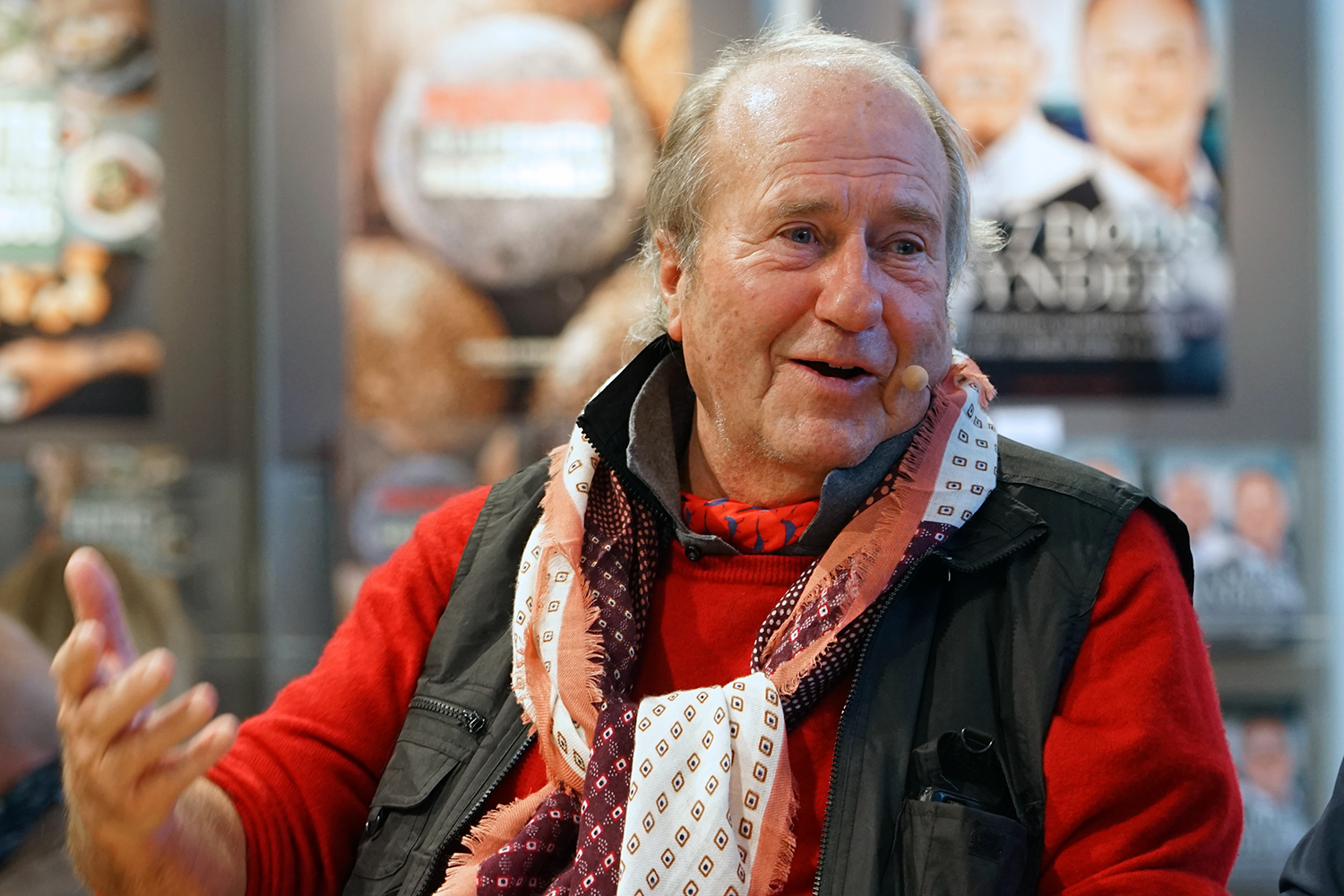 Erik Rud Brandt - Danish fashion designer - at the Copenhagen Book Fair "BogForum 2018", Copenhagen, Denmark